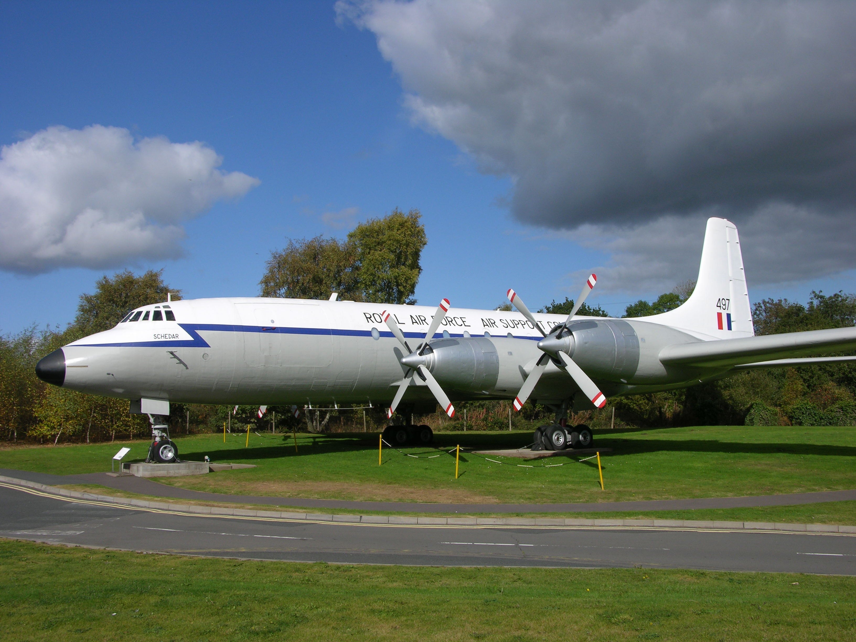 The last time I visited the museum this was still painted in BOAC markings. The RAF was still operating the "Whispering Giant"as it was called into the early seventies. Many were then sold on the covilian market but seemingly none survive.